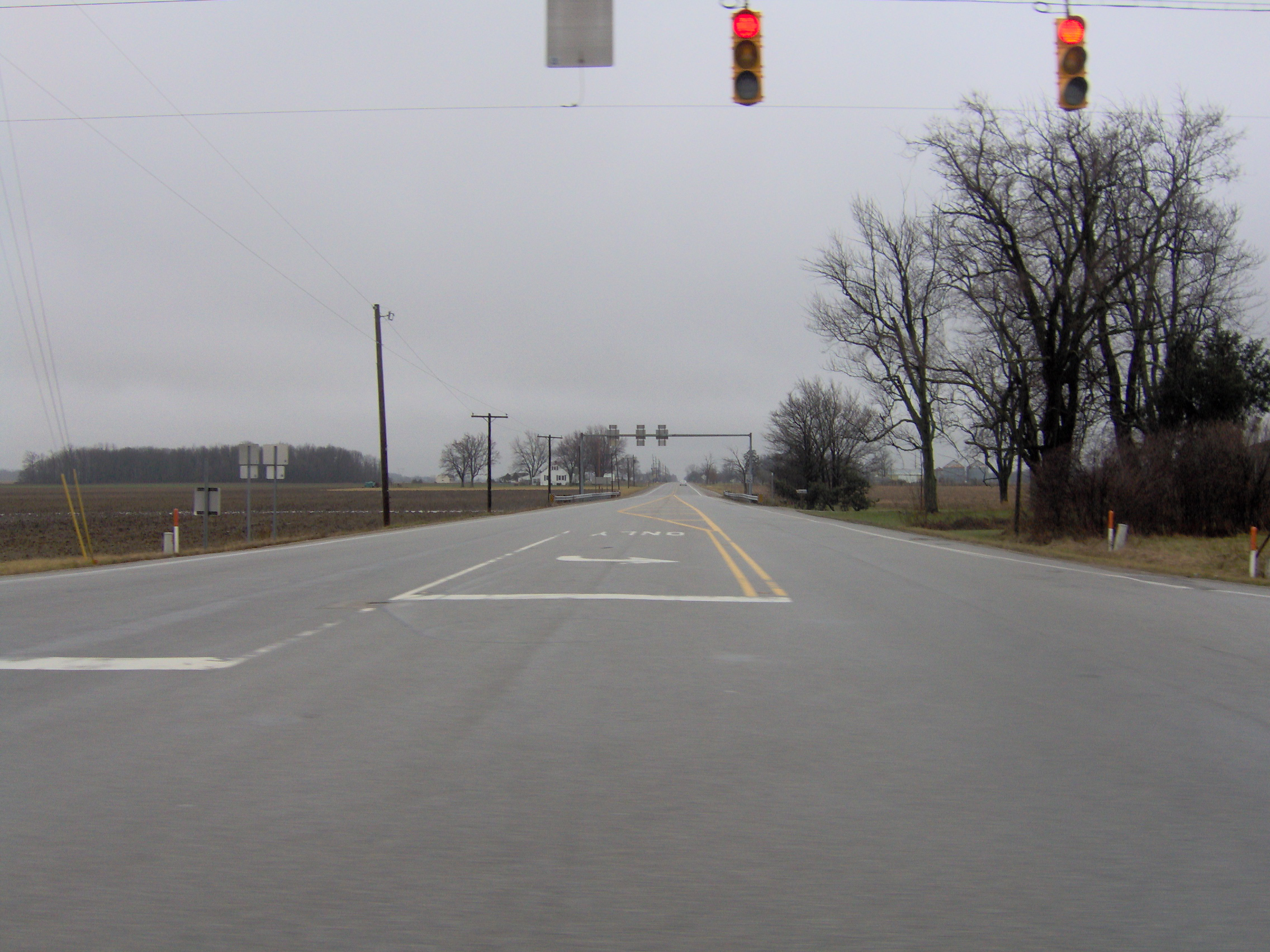 View along Indiana State Road 1, looking south at the intersection with US 224.